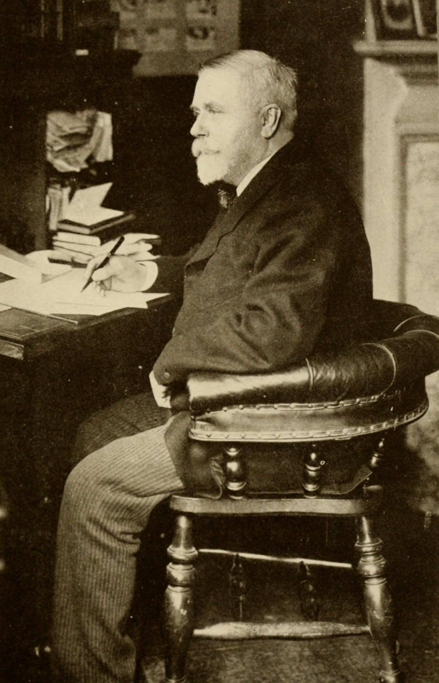 Portrait of Thomas Wemyss Reid